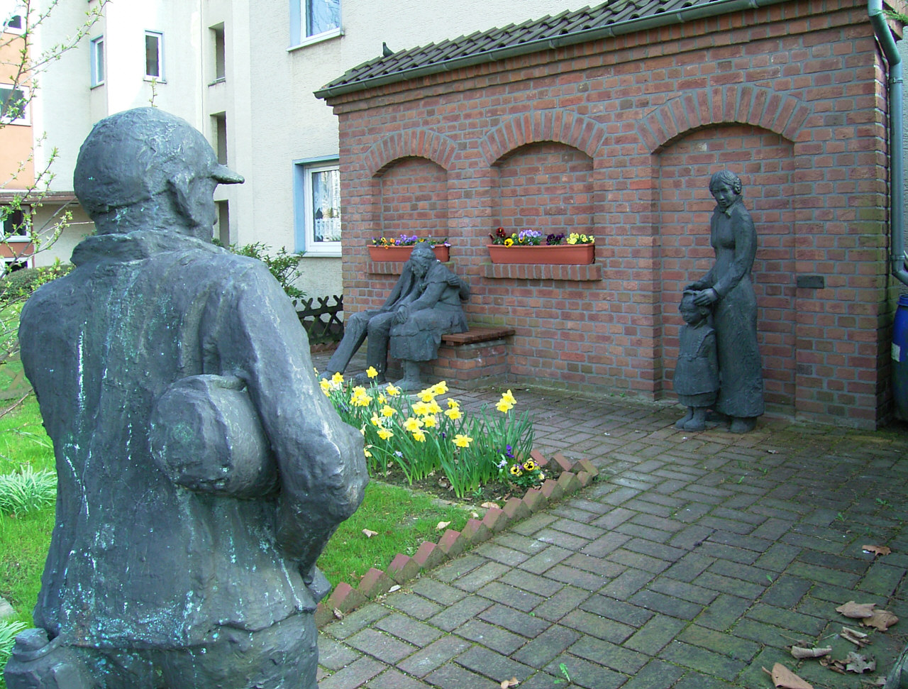 “Bergmannsleben” (“Miner's Life”), Prof. Lothar Kampmann, 1981; a reminder of life and work within a former miner colony located in Kaiserau (Kamen), Northrhine Westphalia, Germany. covered by freedom of panorama